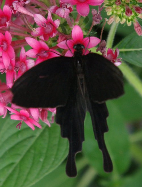 Pink Rose (Pachliopta kotzebuea), 12th Live Butterfly Exhibit, Brookside Gardens, Wheaton MD